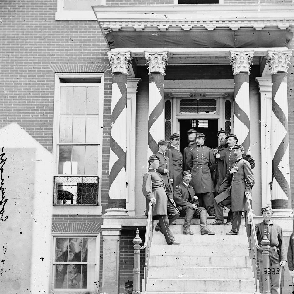 Petersburg, Virginia. Gen. Edward Ferrero and staff